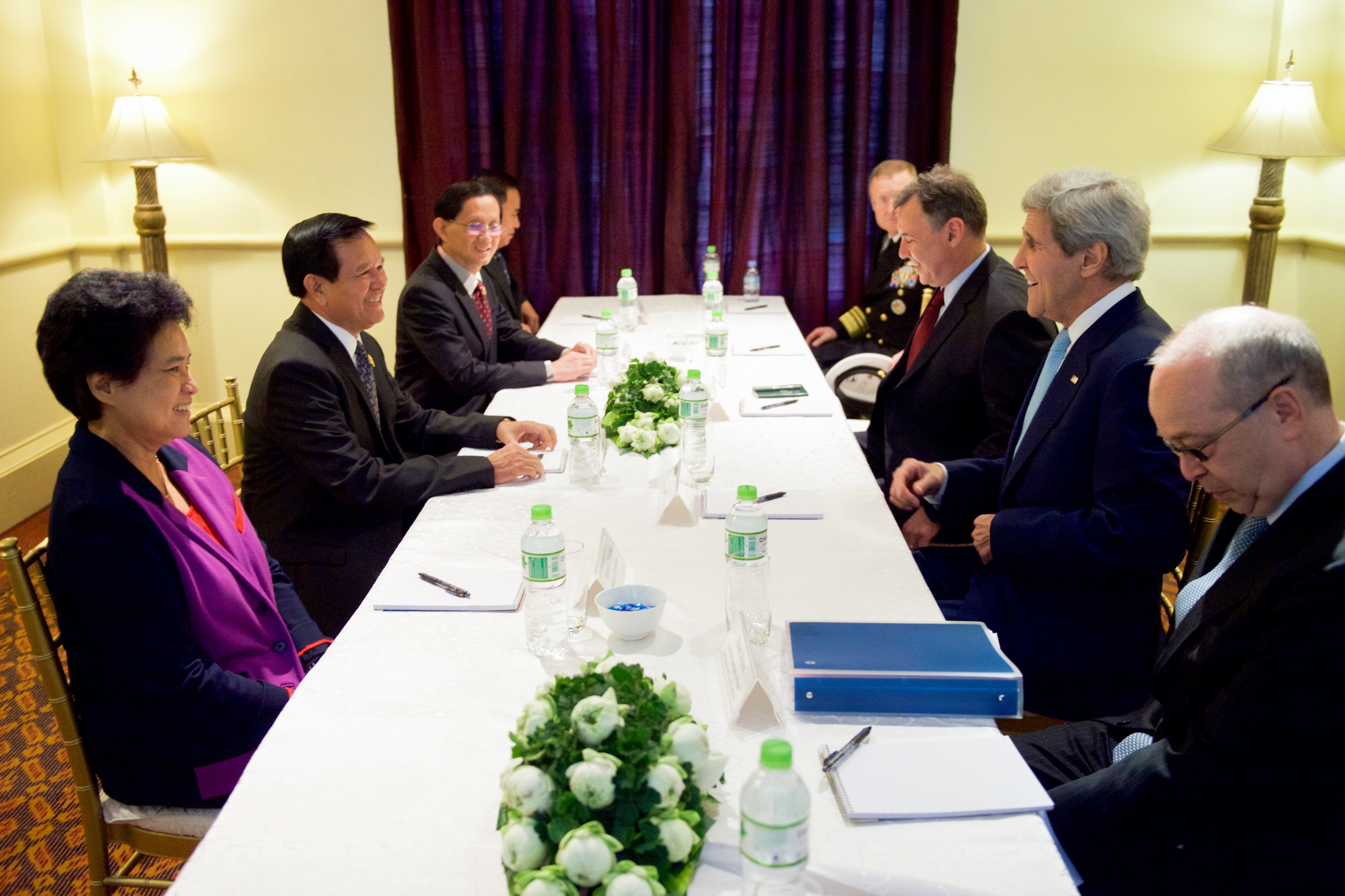 U.S. Secretary of State John Kerry sits across from Kem Sokha, Acting President of the Cambodia National Rescue Party and the country's opposition leader, at the Raffles Hotel in Phnom Penh, Cambodia, on January 26, 2016, at the outset of a meeting following a series of conversations with national government leaders.